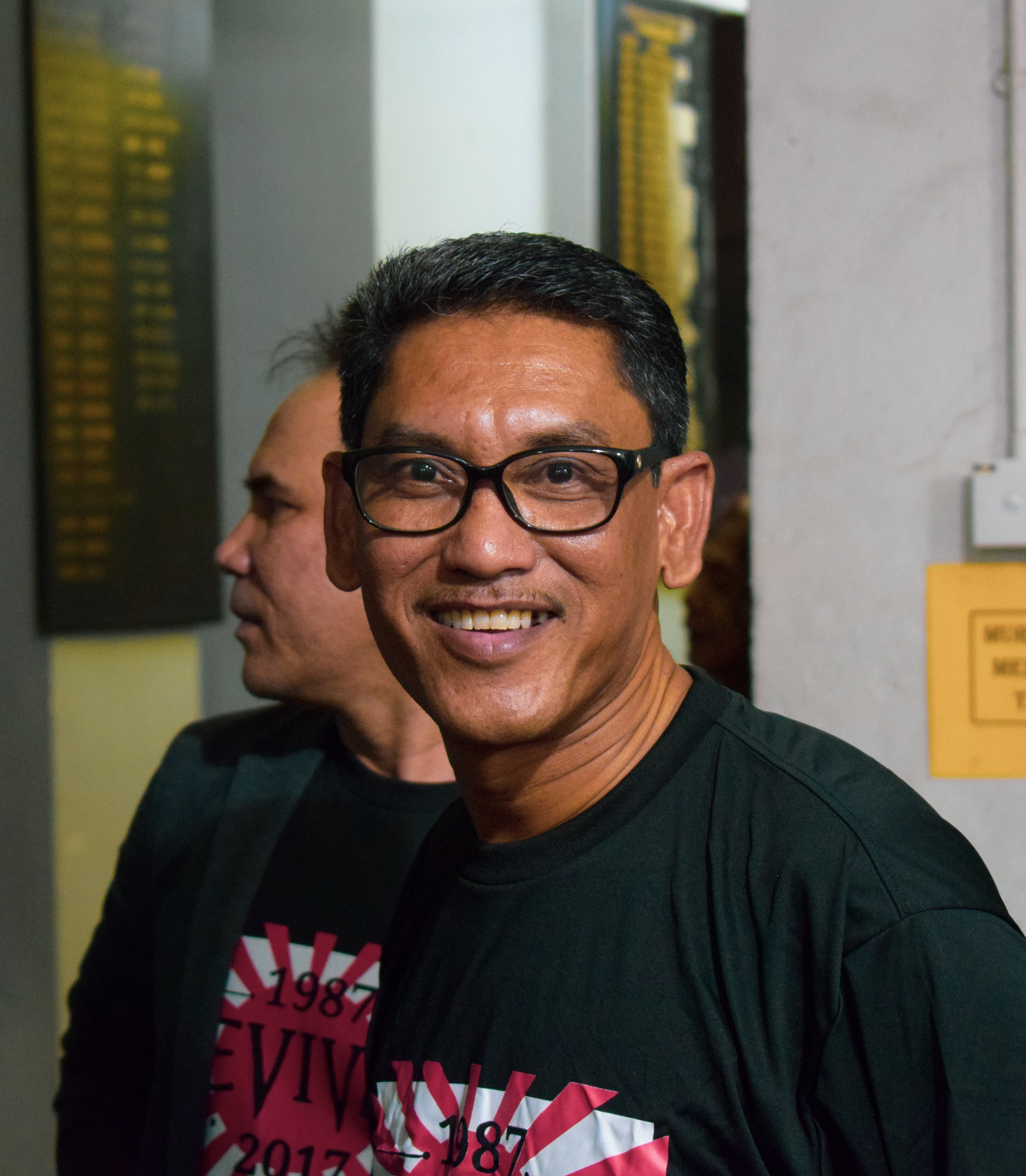 Ahmad Faizal Azumu